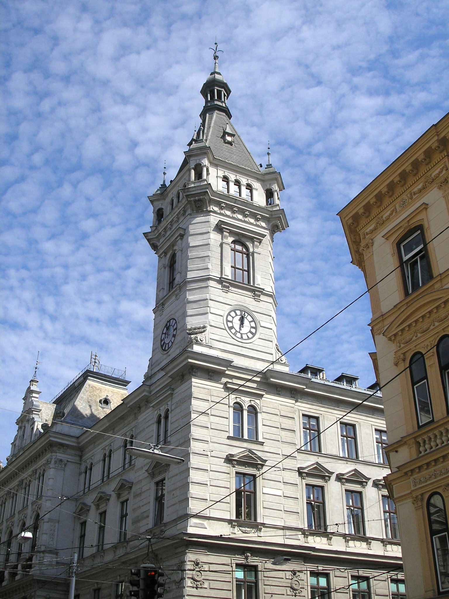 Image of the Bezirkskamt in Vienna's XVIII district Währing.